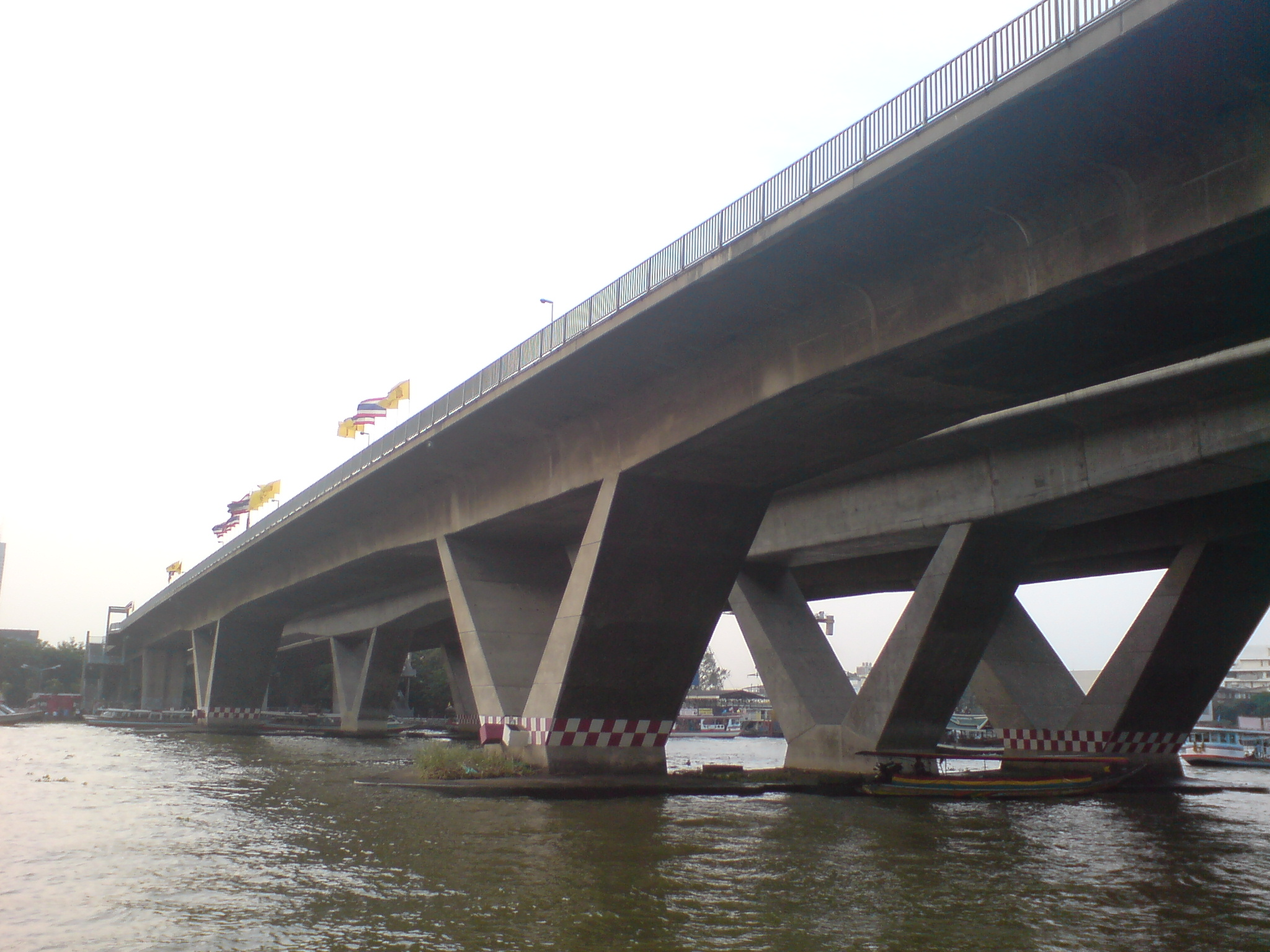 View of Taksin Bridge from Sathorn pier